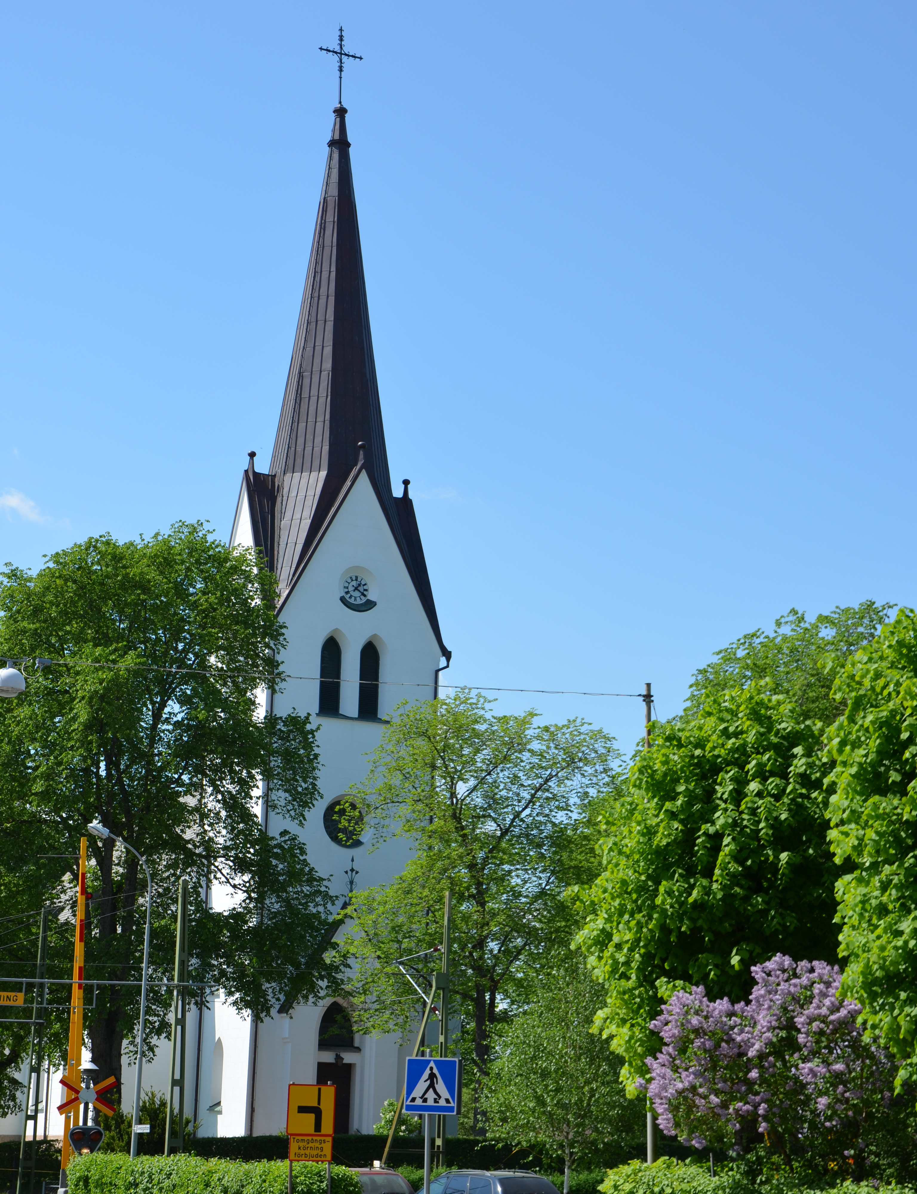 Vara church